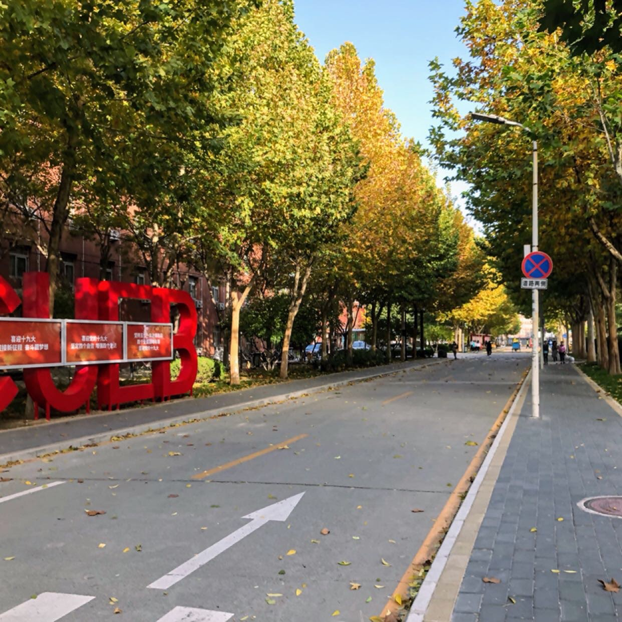 Campus Path